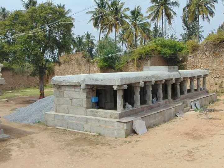 pancha lingas at iravatheshwar temple